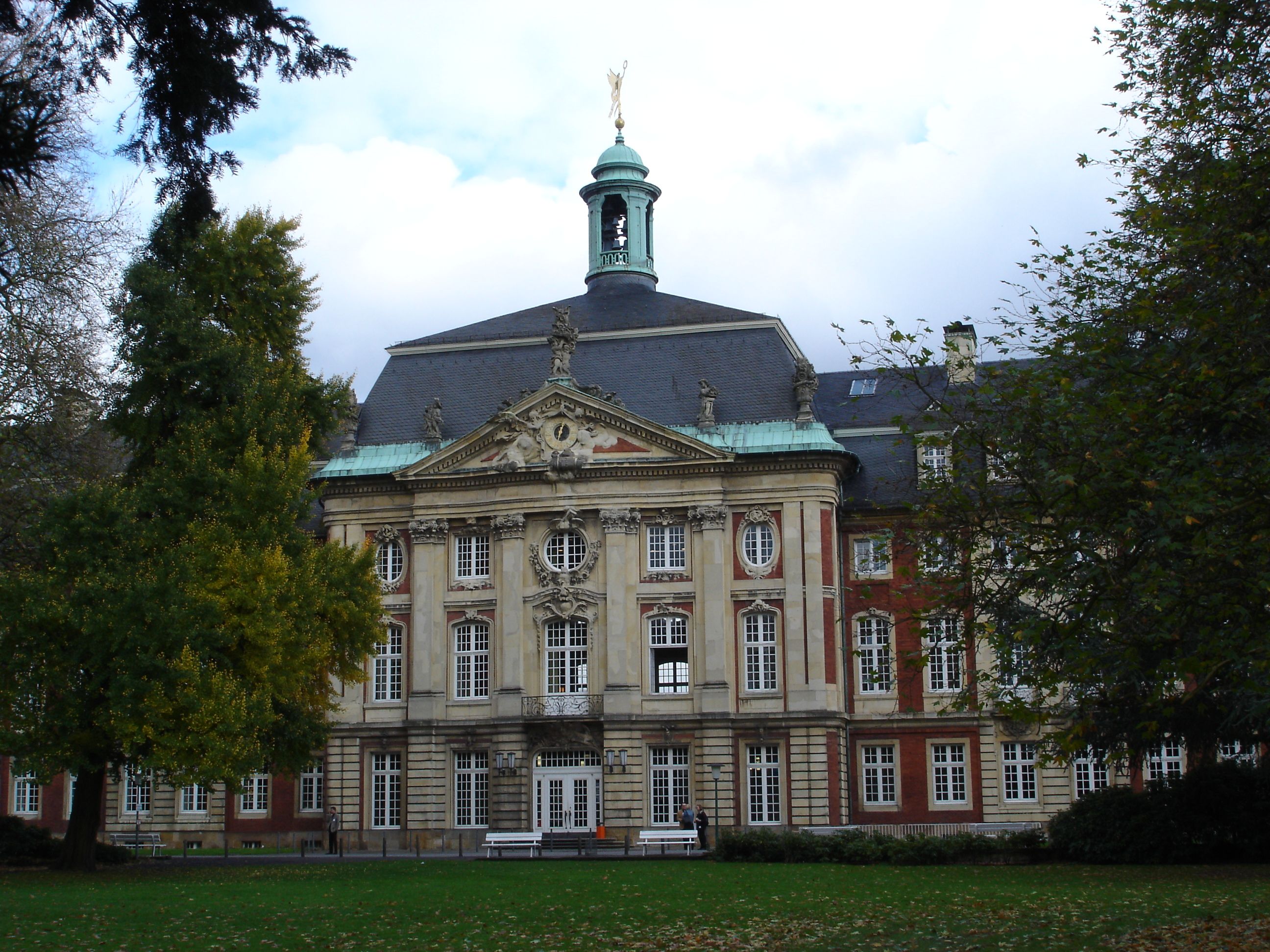 Rear entrance of the castle of the city of Münster (Westphalia), Germany